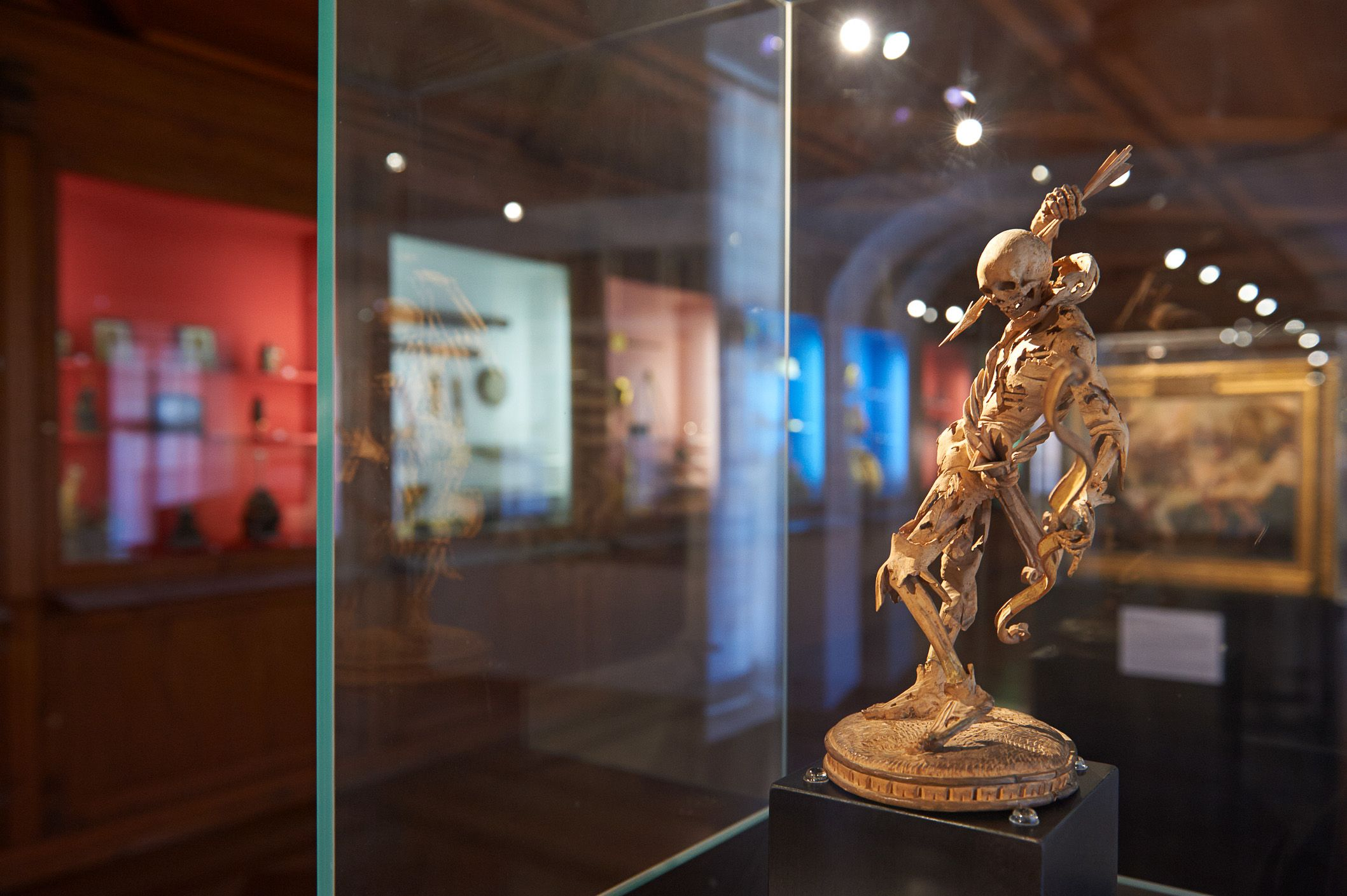 Small Death (by Hans Leinberger, c.1520) from the collection of Archduke Ferdinand II in today's presentation of the Chamber of Art and Wonders of Ambras Castle, Innsbruck.